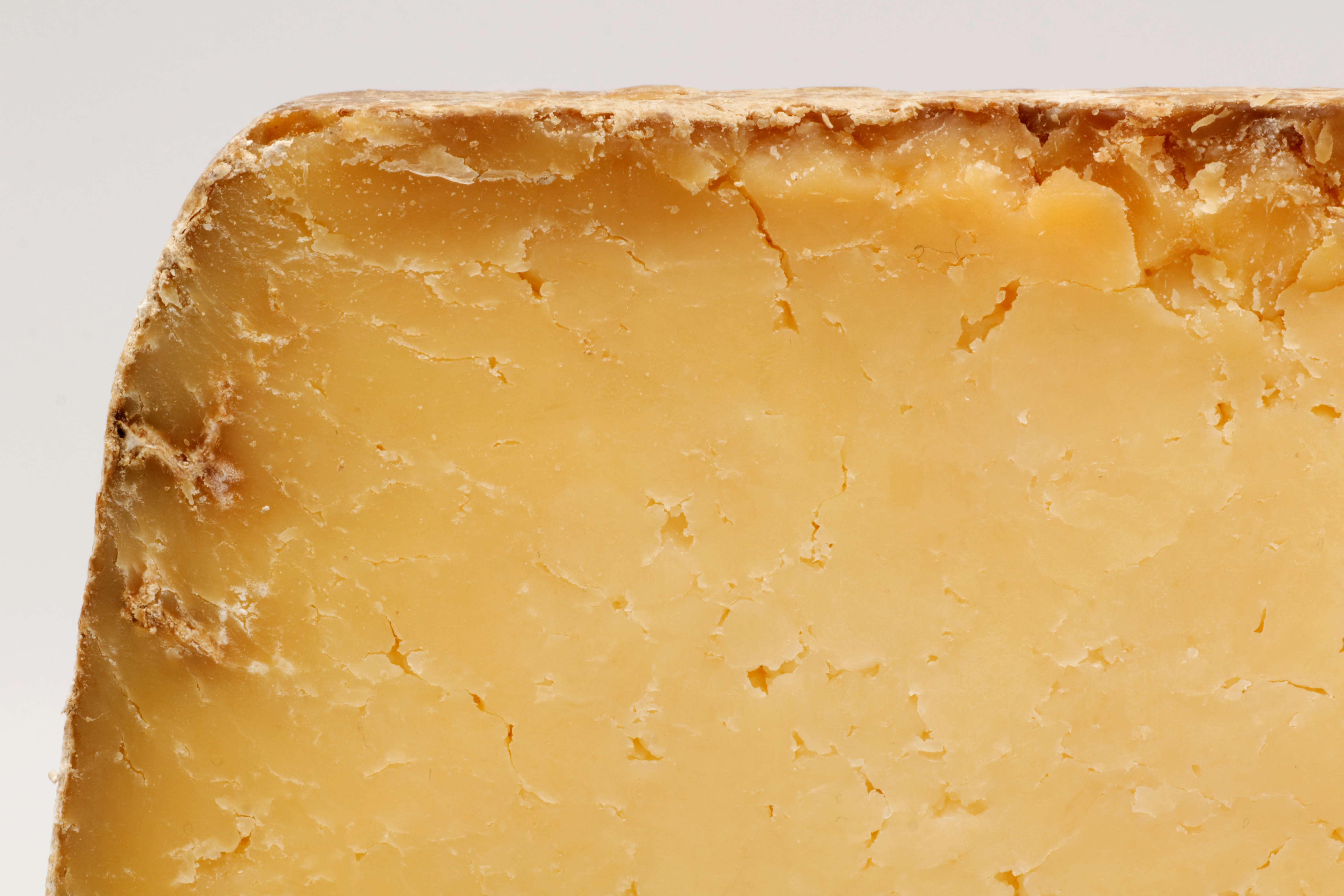 Salers